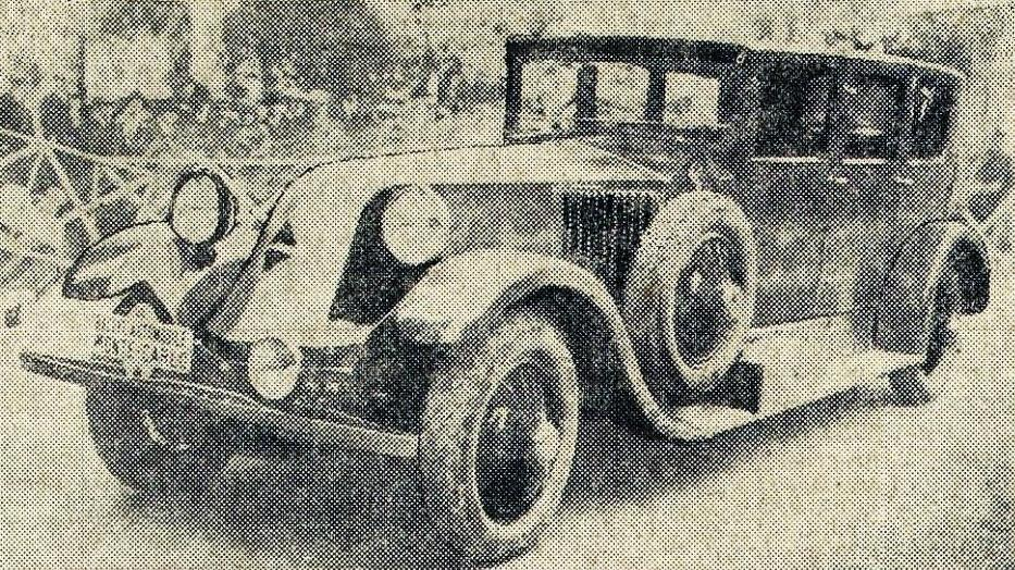 Entry #4 in the 1925 Rallye Monte Carlo was a Renault 40CV 9,121ccm engine, driven by François Repusseau and "madame". They won the race!.[1]